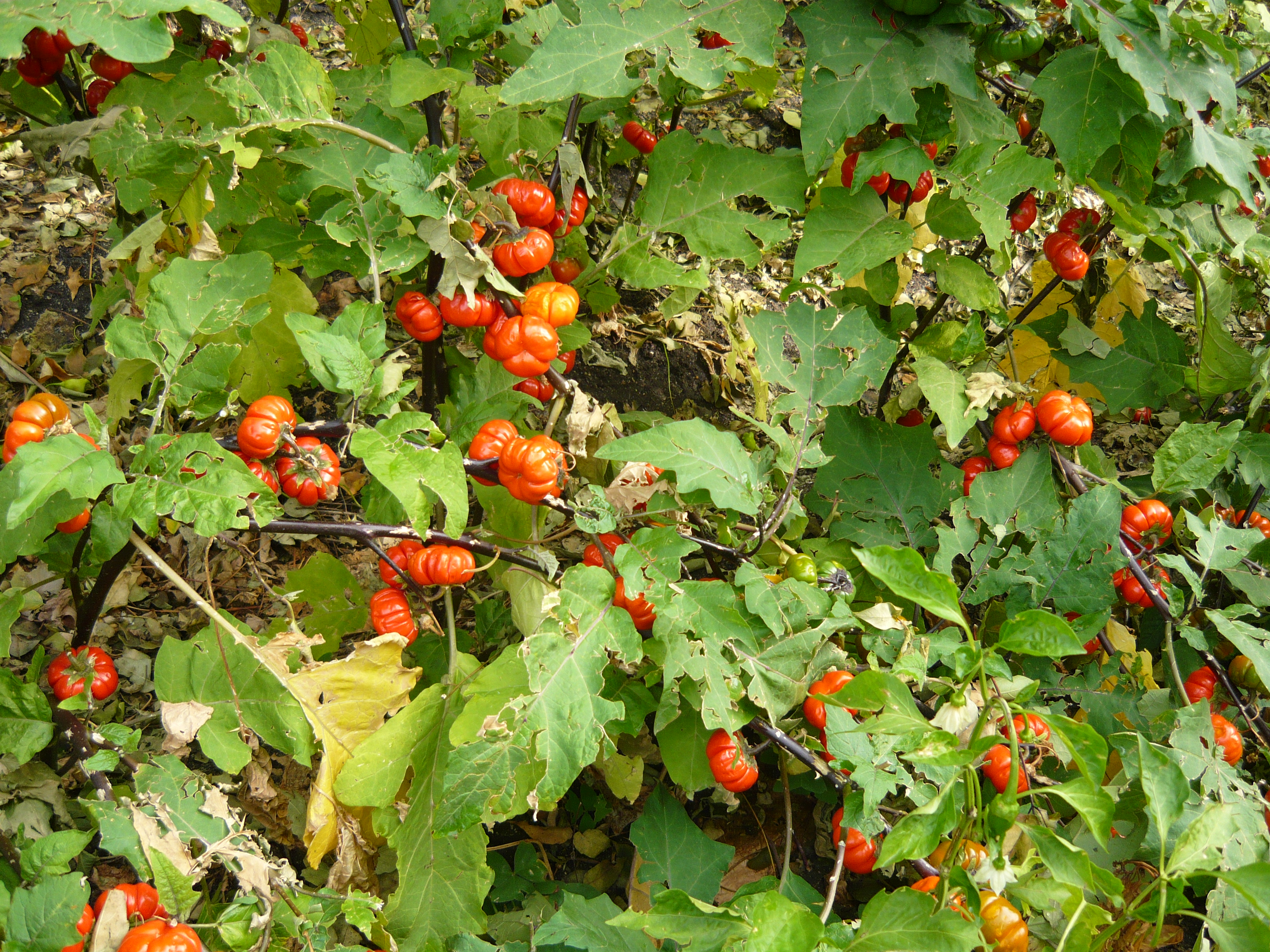 Solanum aethiopicum Kumba group 'Red Ruffled' (mini pumpkin tree), Royal Botanical Garden of Madrid.